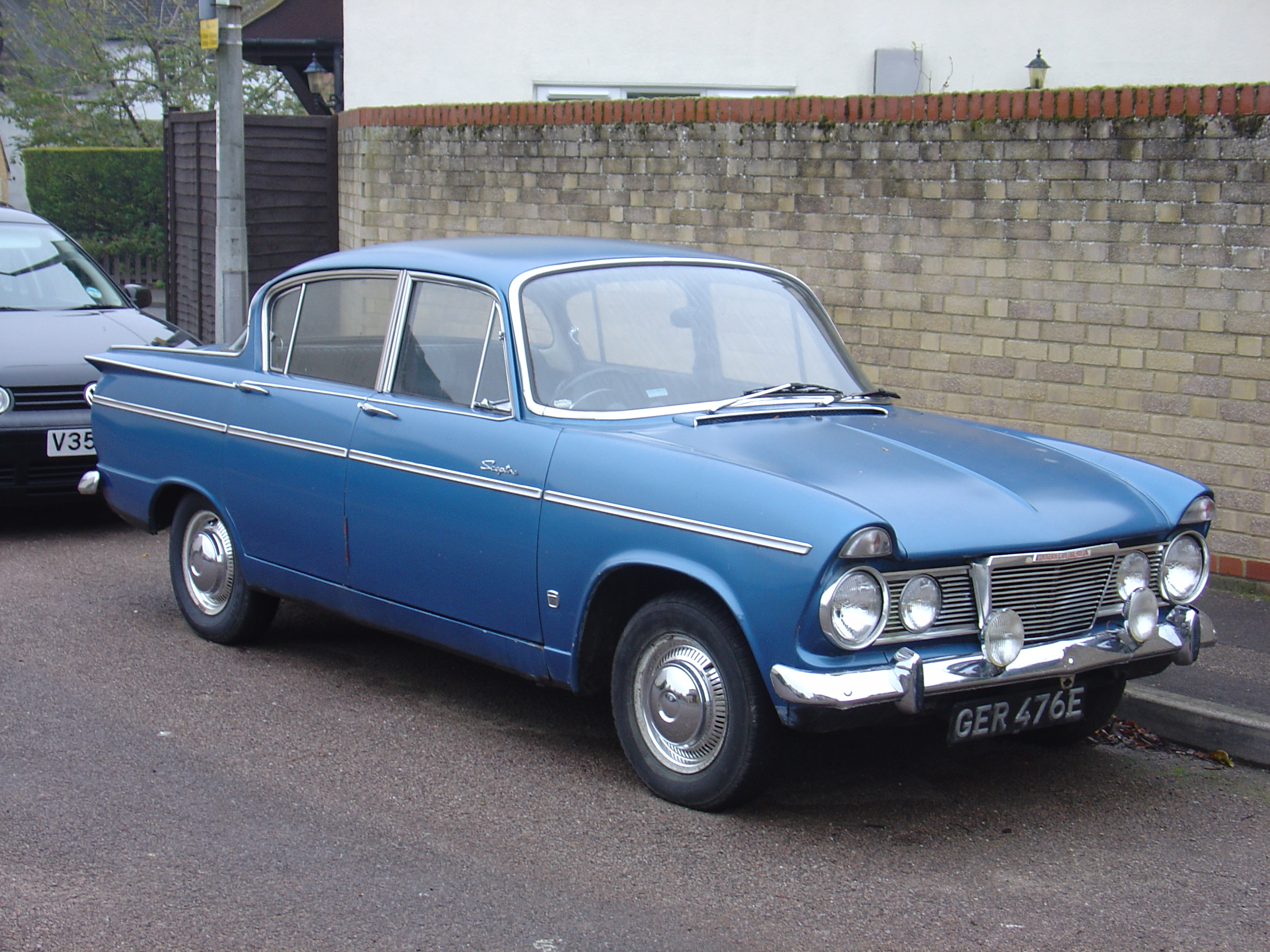 not many of these left 2